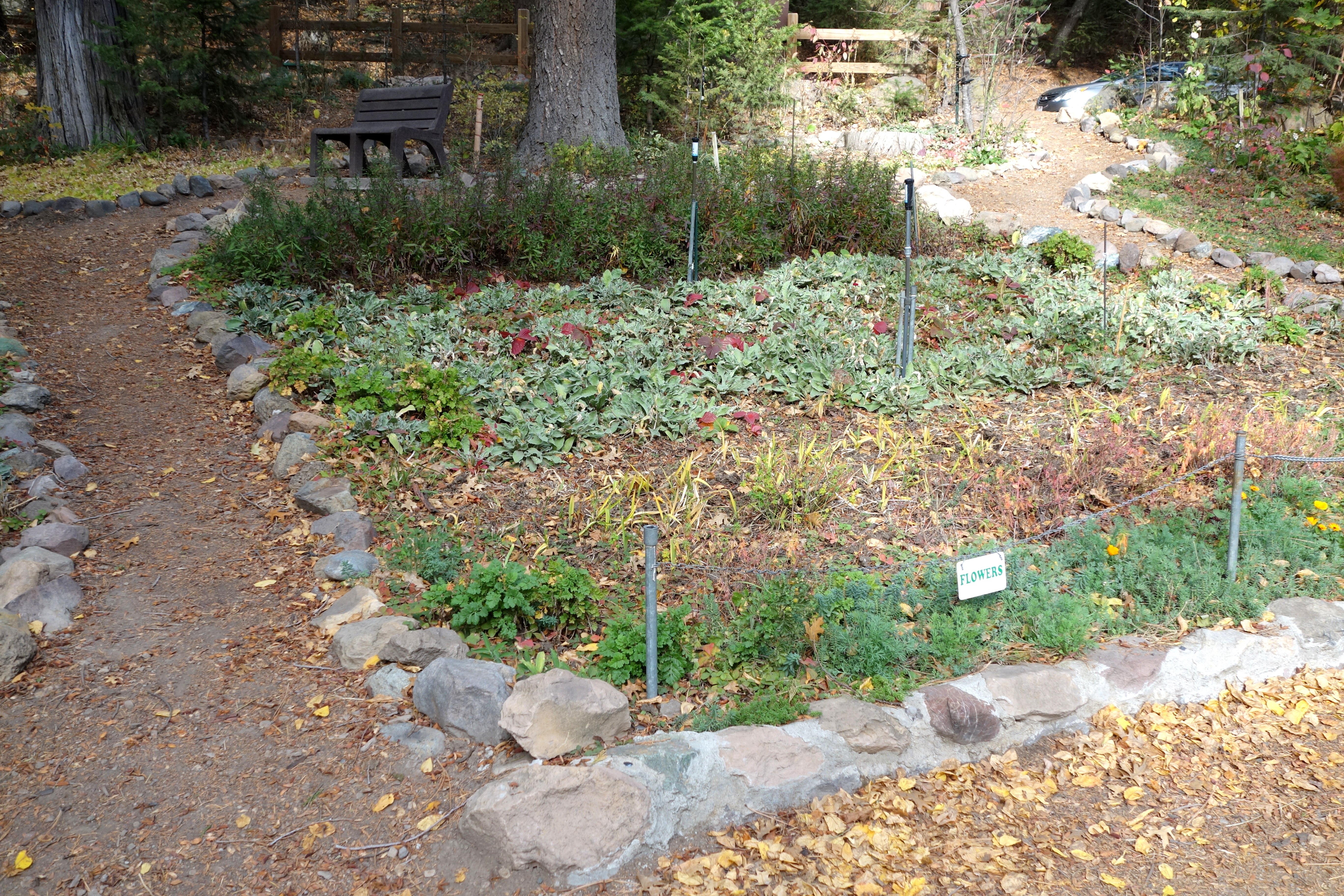 Mount Shasta City Park - Mount Shasta City, California, USA.